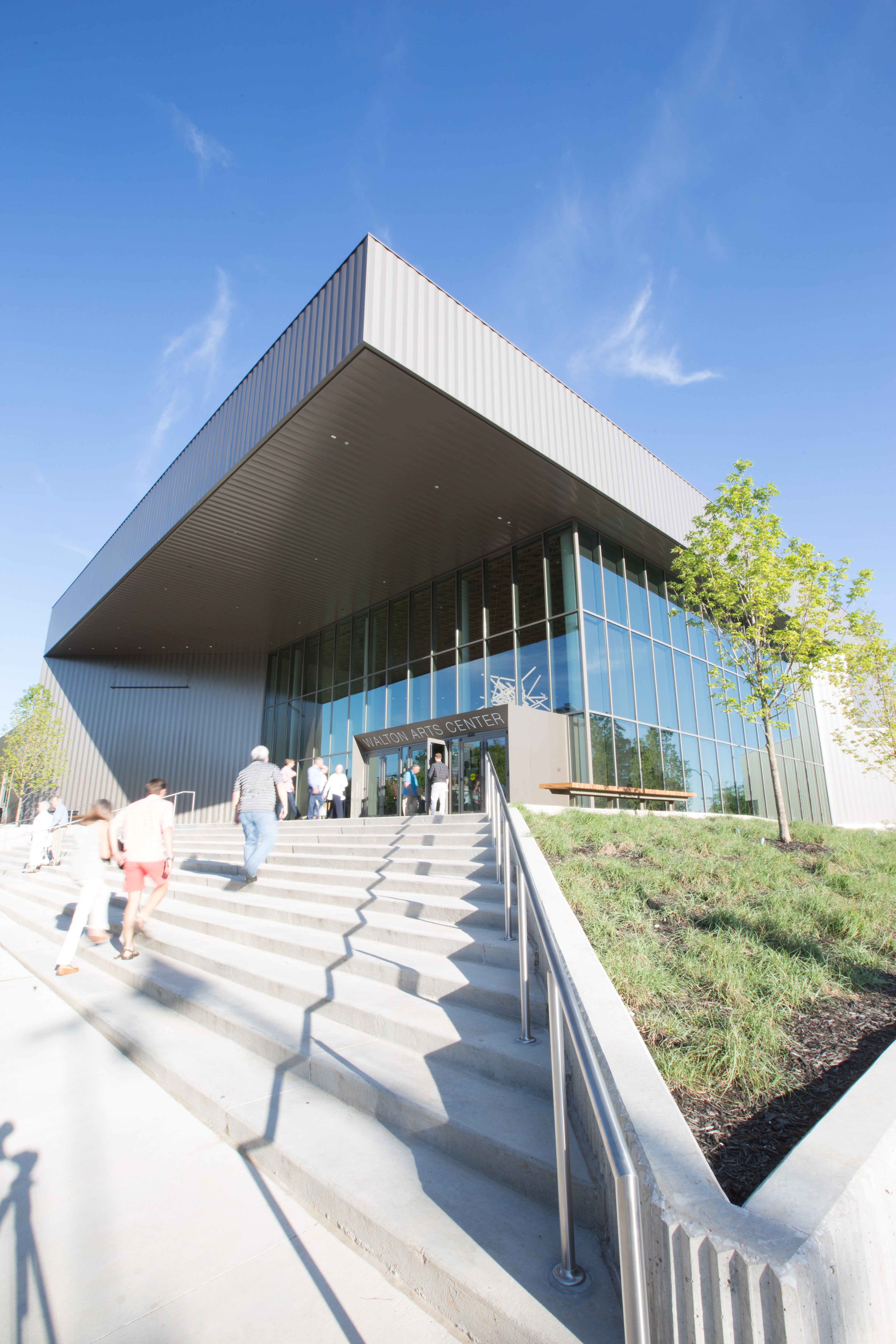 Photograph of Walton Arts Center under a blue sky